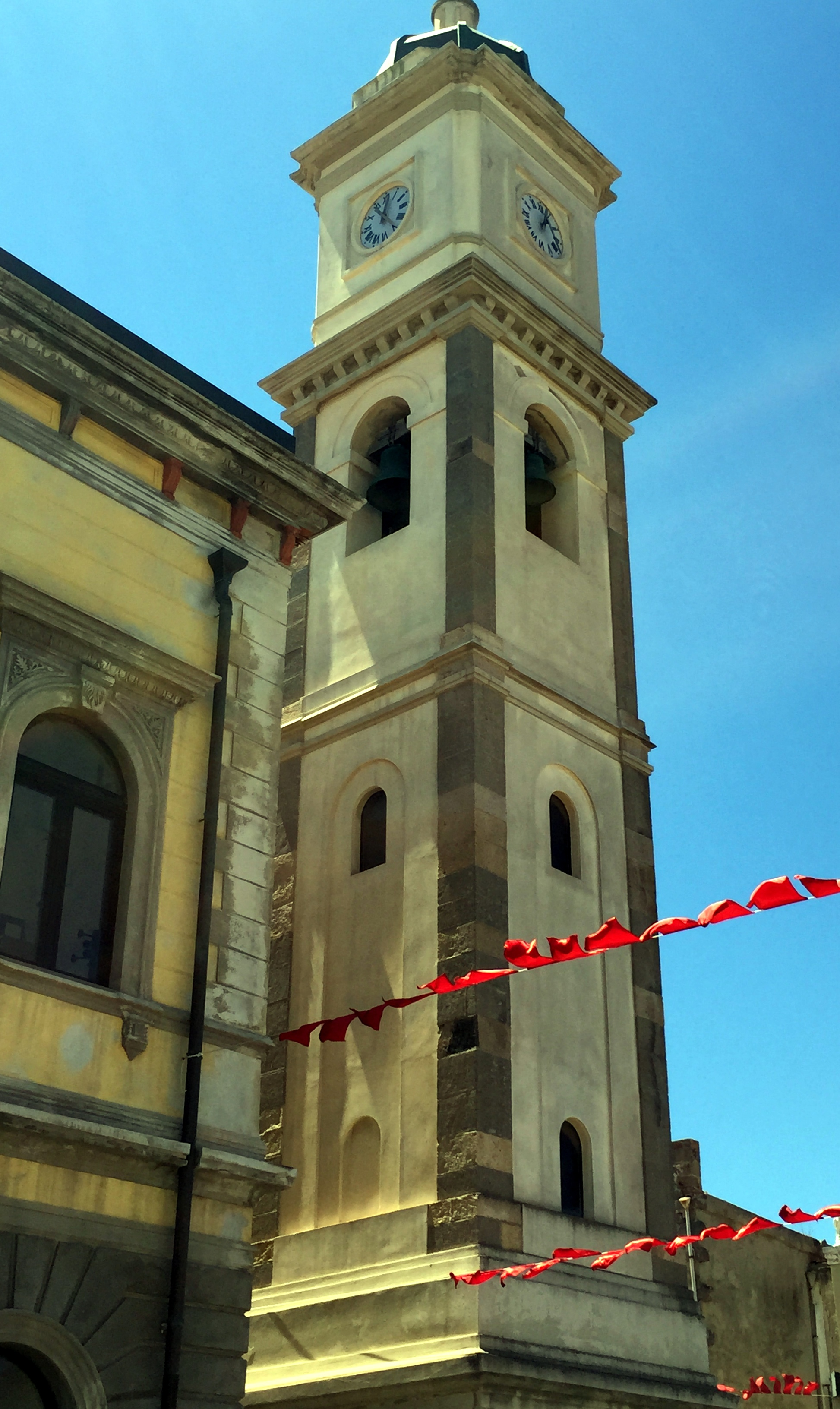 This photograph was taken with an iPhone 6